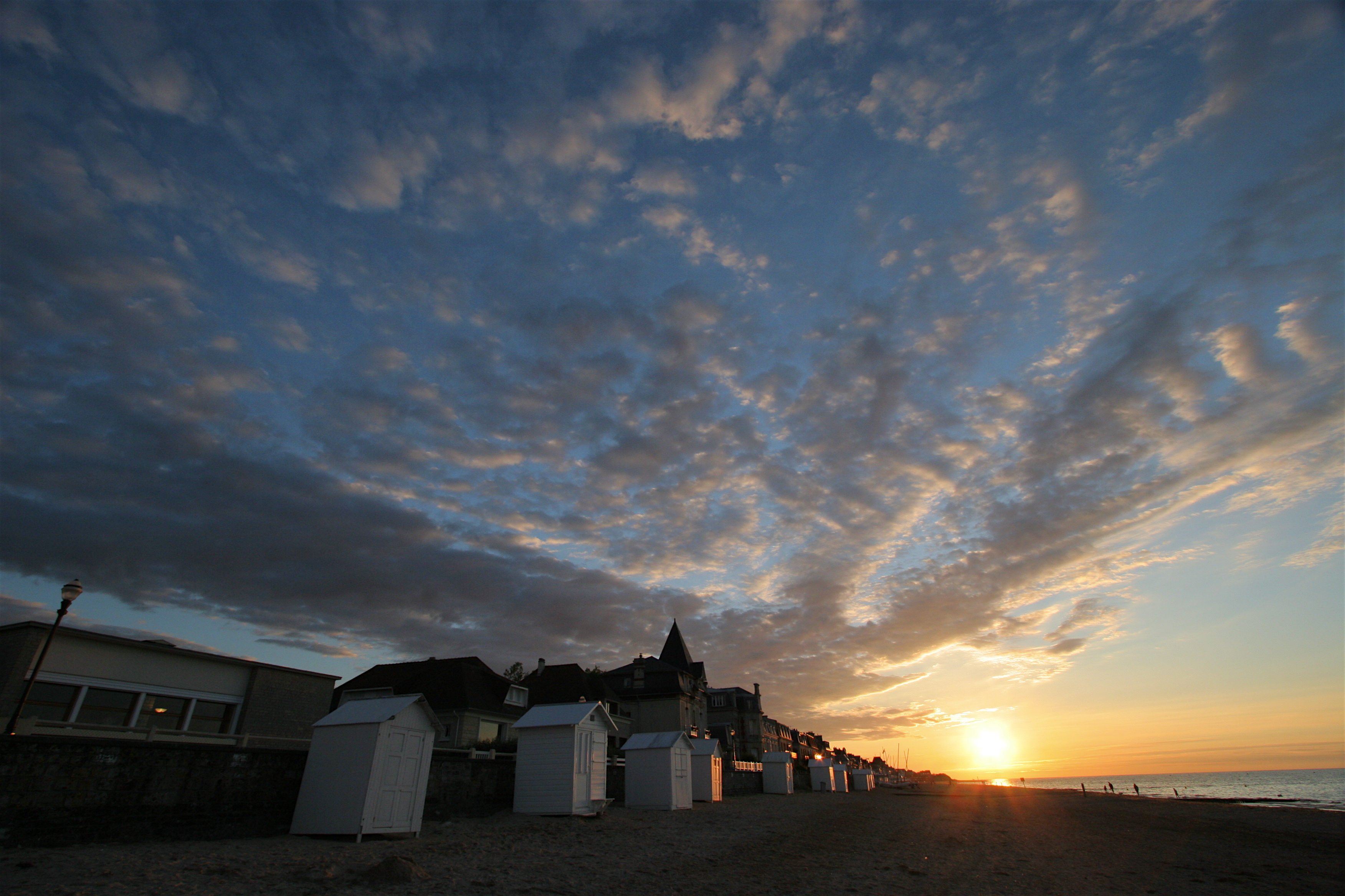 Sunset on Saint-Aubin sur Mer's beach (Calvados, France)